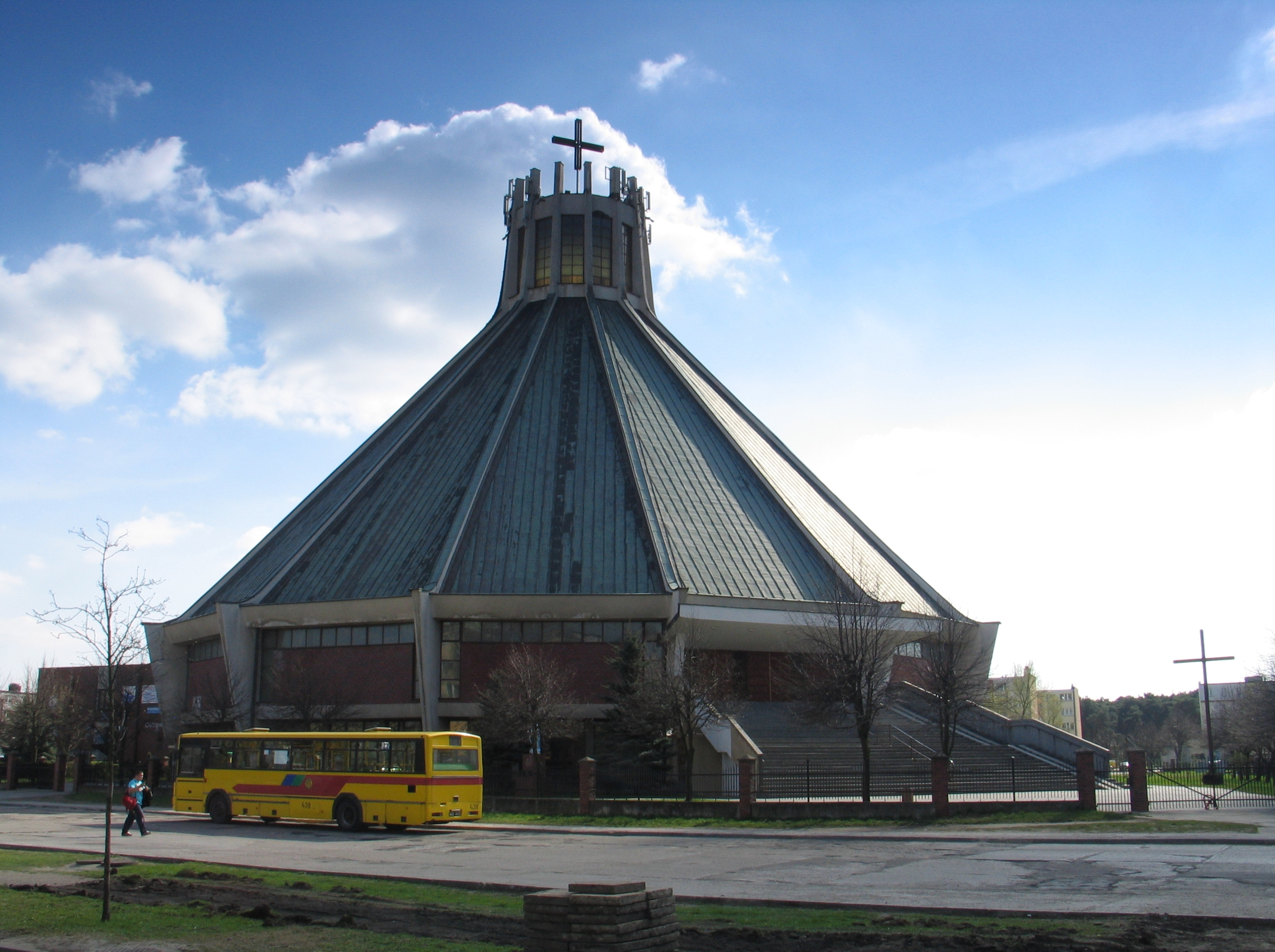 Church of the Sacred Heart of Jesus in Włocławek, Poland